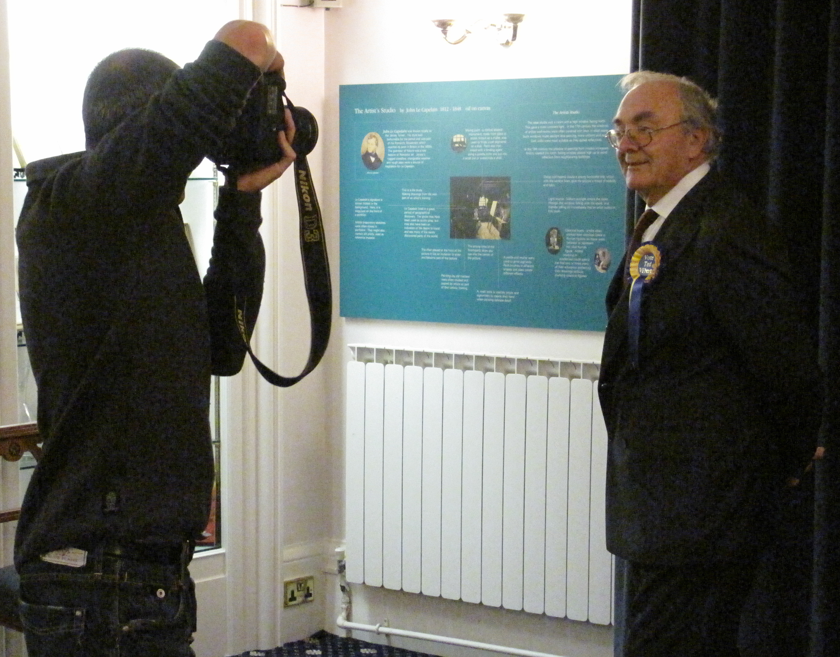 Nominations, 7 September 2011: Ted Vibert, candidate for Deputy, Saint Helier 3&4